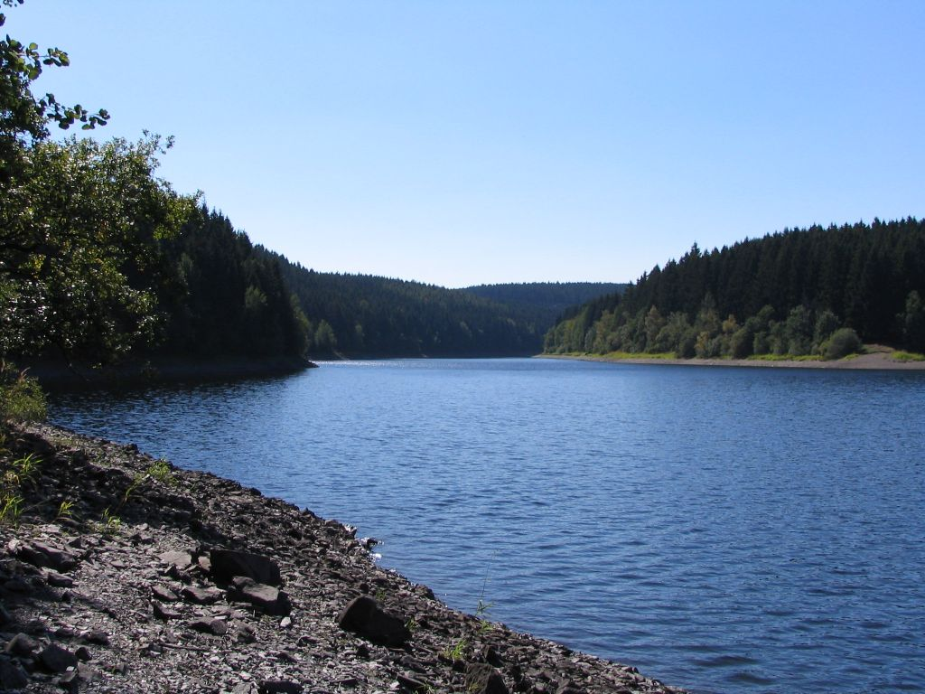 The Zillierbach Reservoir, Harz Mountains Germany